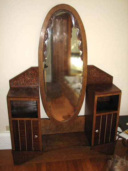 Mirror and chest ensemble - Art-Déco style.